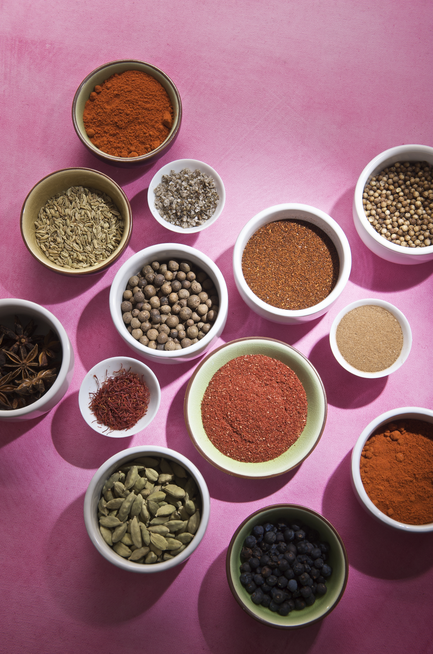 Spices on Pink